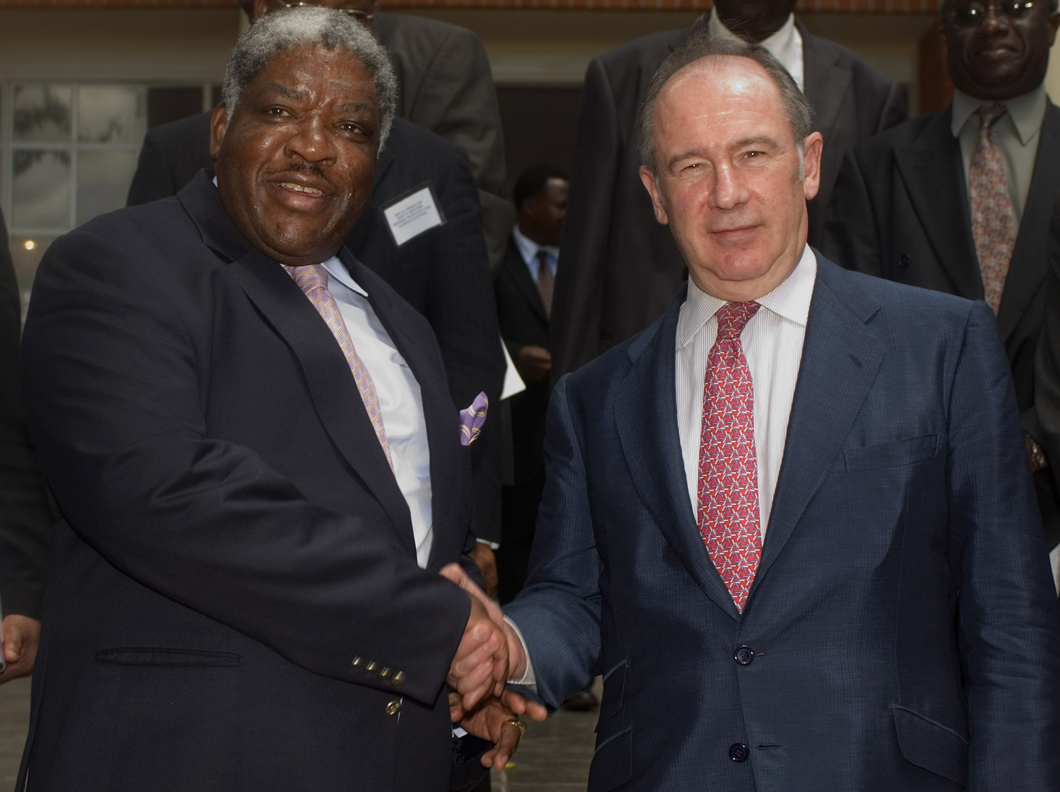 IMF Managing Director Rodrigo de Rato y Figaredo meeting with The Republic of Zambia's President H. E Levy Patric Mwanawasa